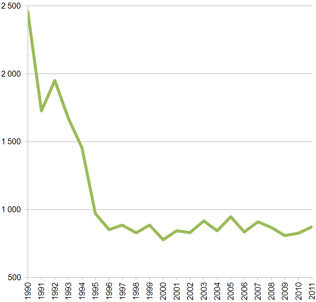 Georgia (country) agriculture, value added (constant 2005 mln US$), World Bank database